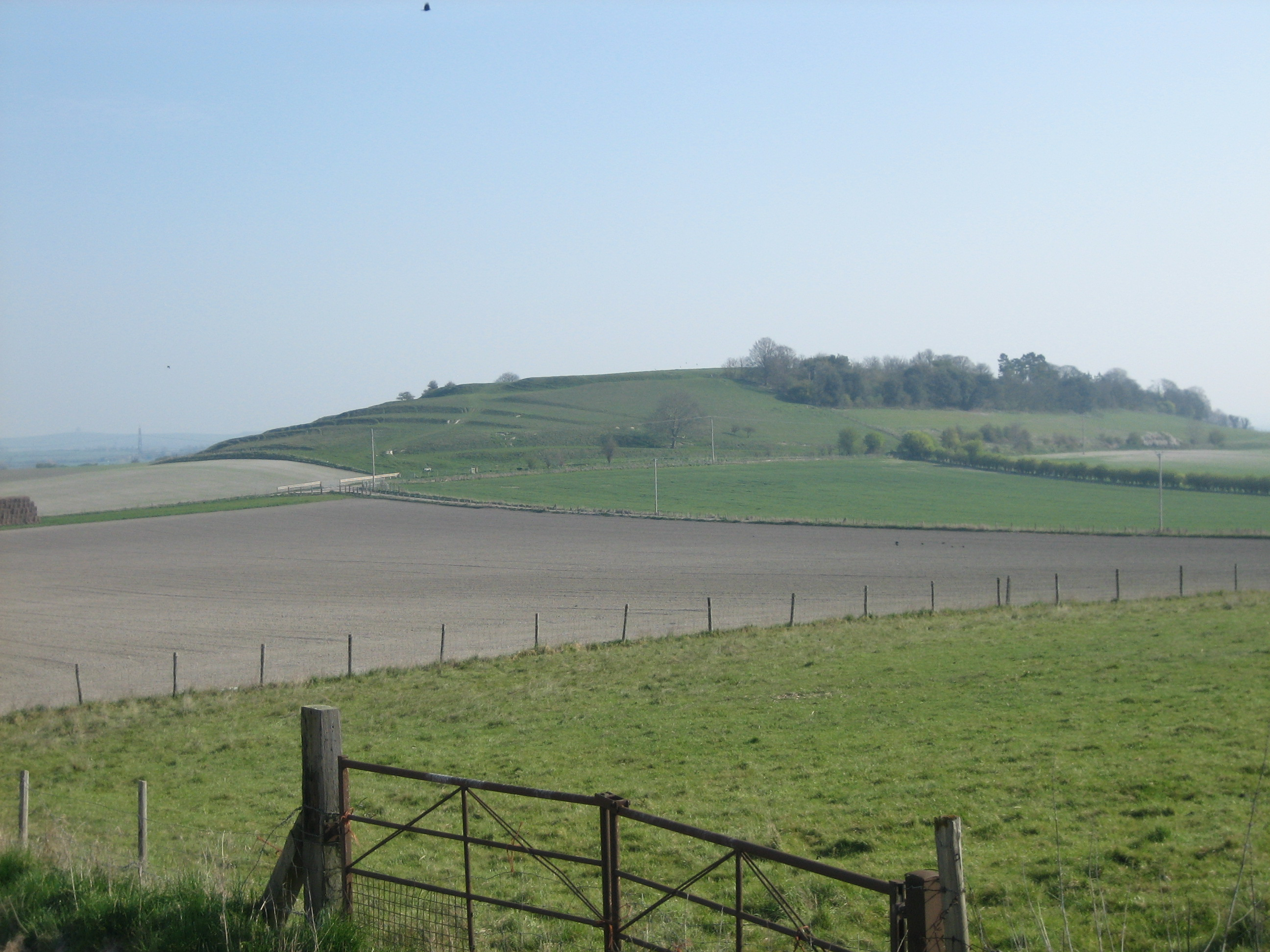 Blewburton hill fort, Blewbury, Oxfordshire, England